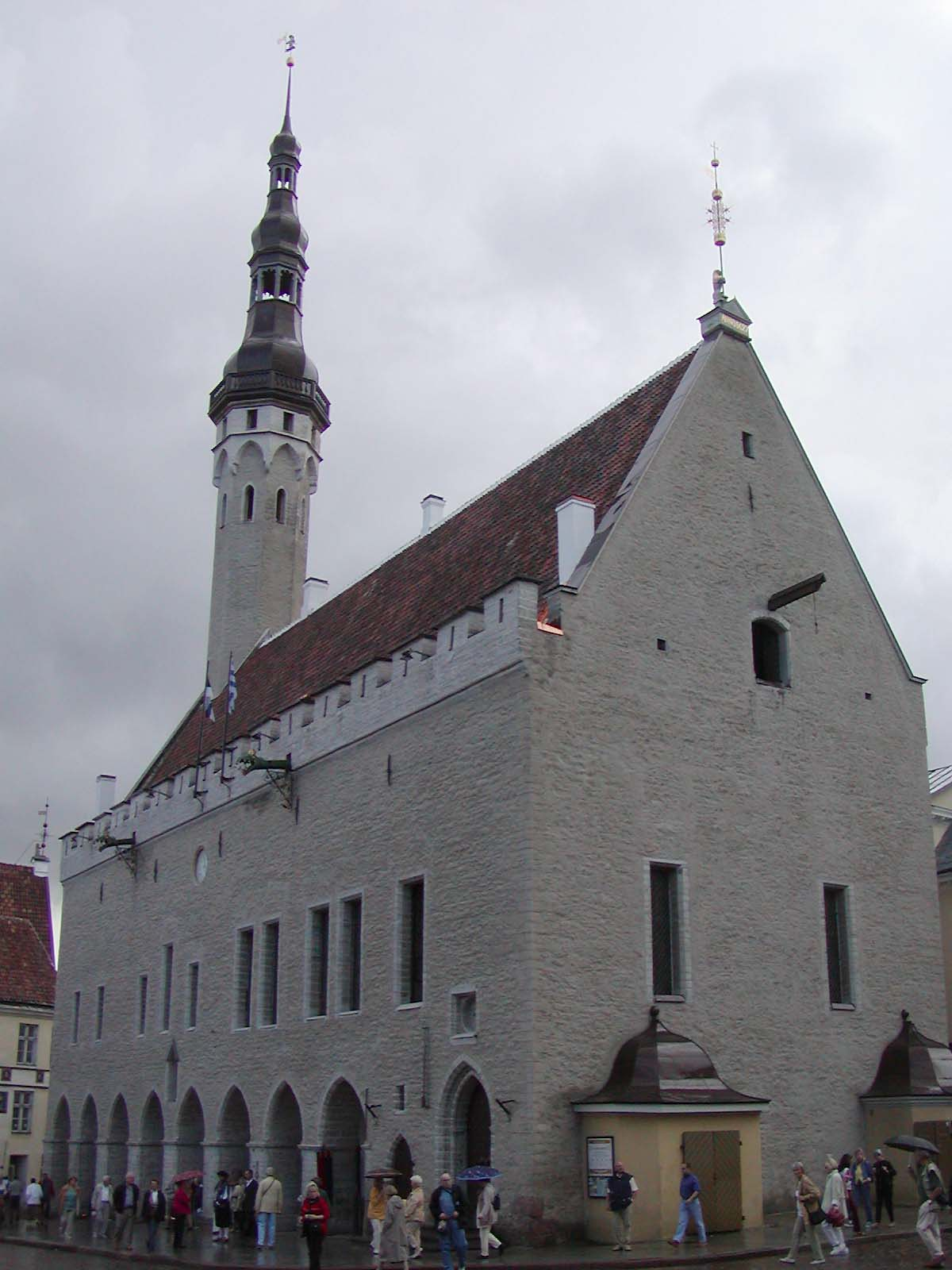 Photo of Tallinn city hall